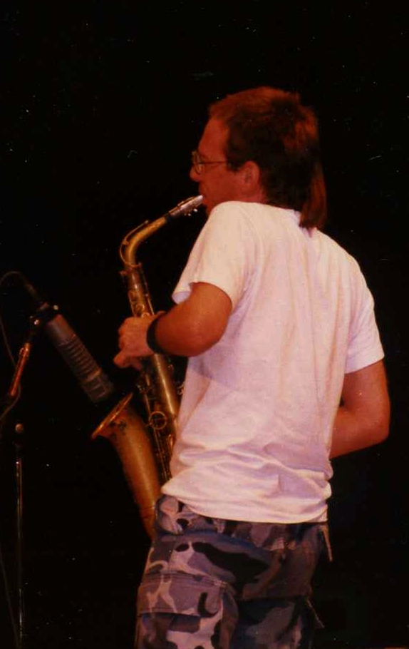 John Zorn Münster 1990